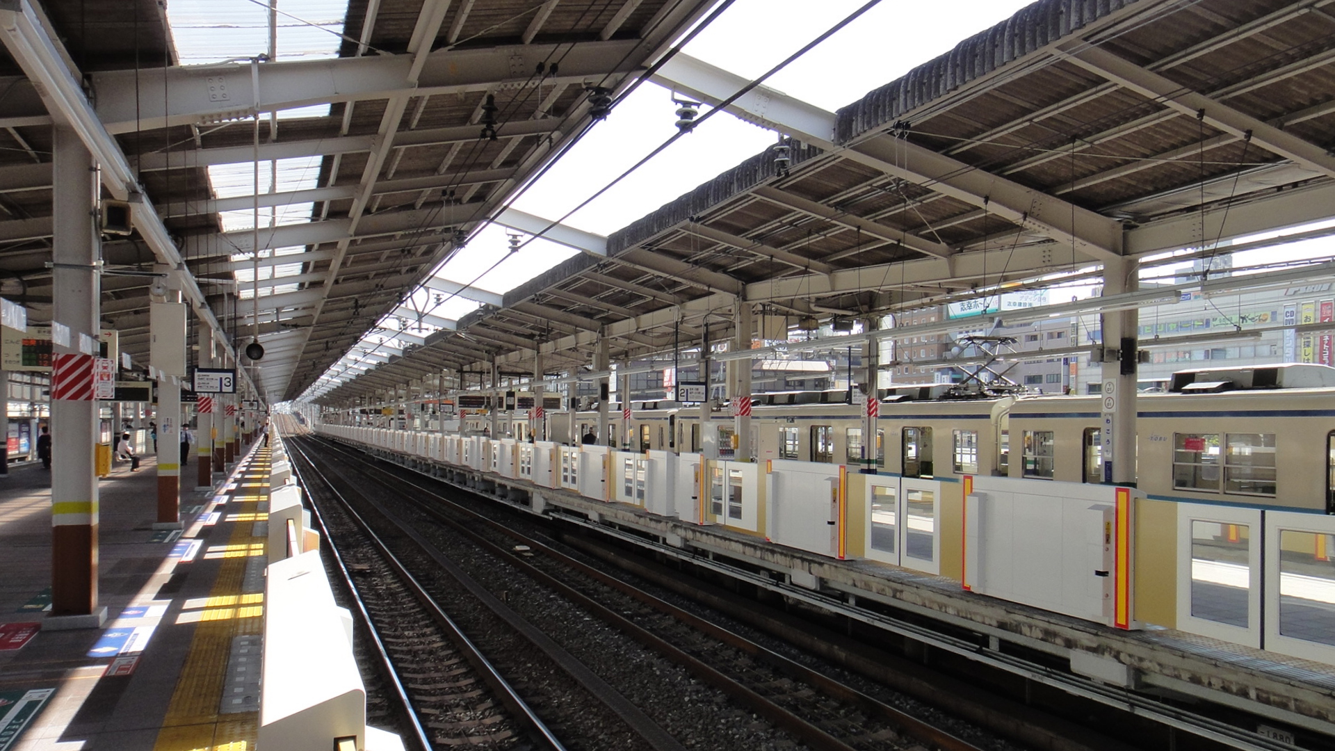 View from platforms 3 and 4 looking toward Ikebukuro at Wakoshi Station on the Tobu Tojo Line in Saitama Prefecture, Japan